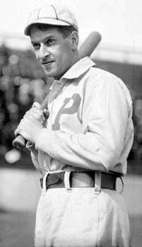 Kid Nichols of the Philadelphia Phillies at the West Side Grounds in 1905. Note: image cropped from original. Explanation for public domain: copyright expired.